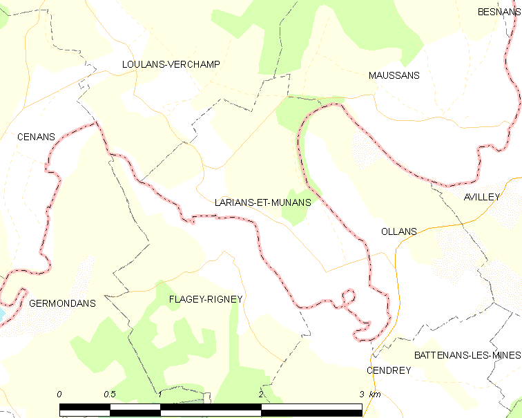 Map of French municipality